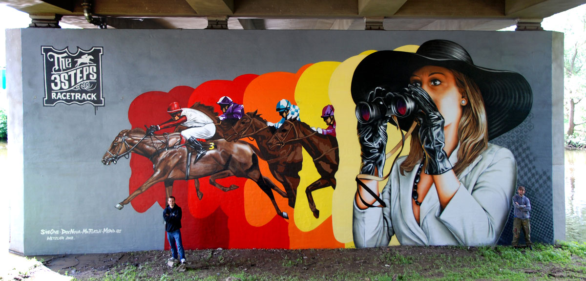 The official Hessentag wall 2012 in Wetzlar, painted by 3Steps and Mord182, about 6 m high and over 15 m long.